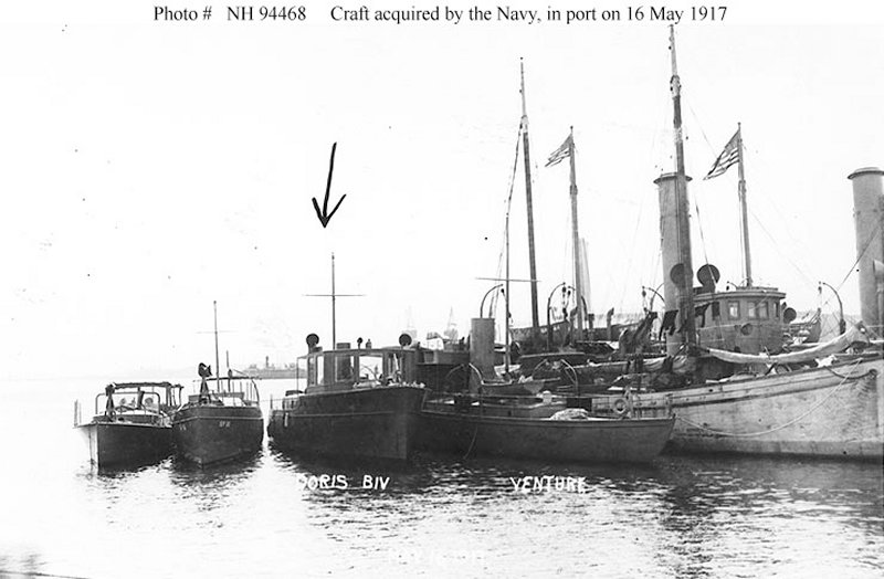 Private boats acquired for United States Navy World War I use as patrol boats. The boat at far left is unidentified; the remainder (left to right) are USS Gypsy (SP-55), USS Doris B. IV (SP-625), USS Venture (SP-616), and USS Comber (SP 344), at the Portsmouth Navy Yard.[1]